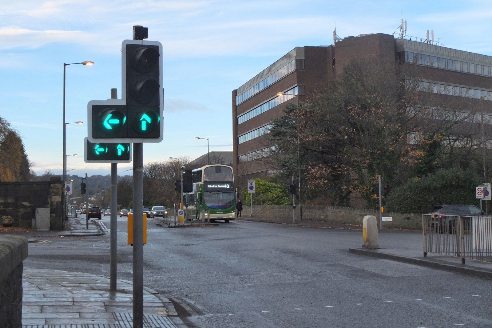 Queensferry Road, Edinburgh